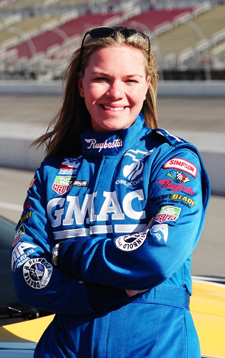 Photo taken by Klint Briney at Fontana Speedway in 2003